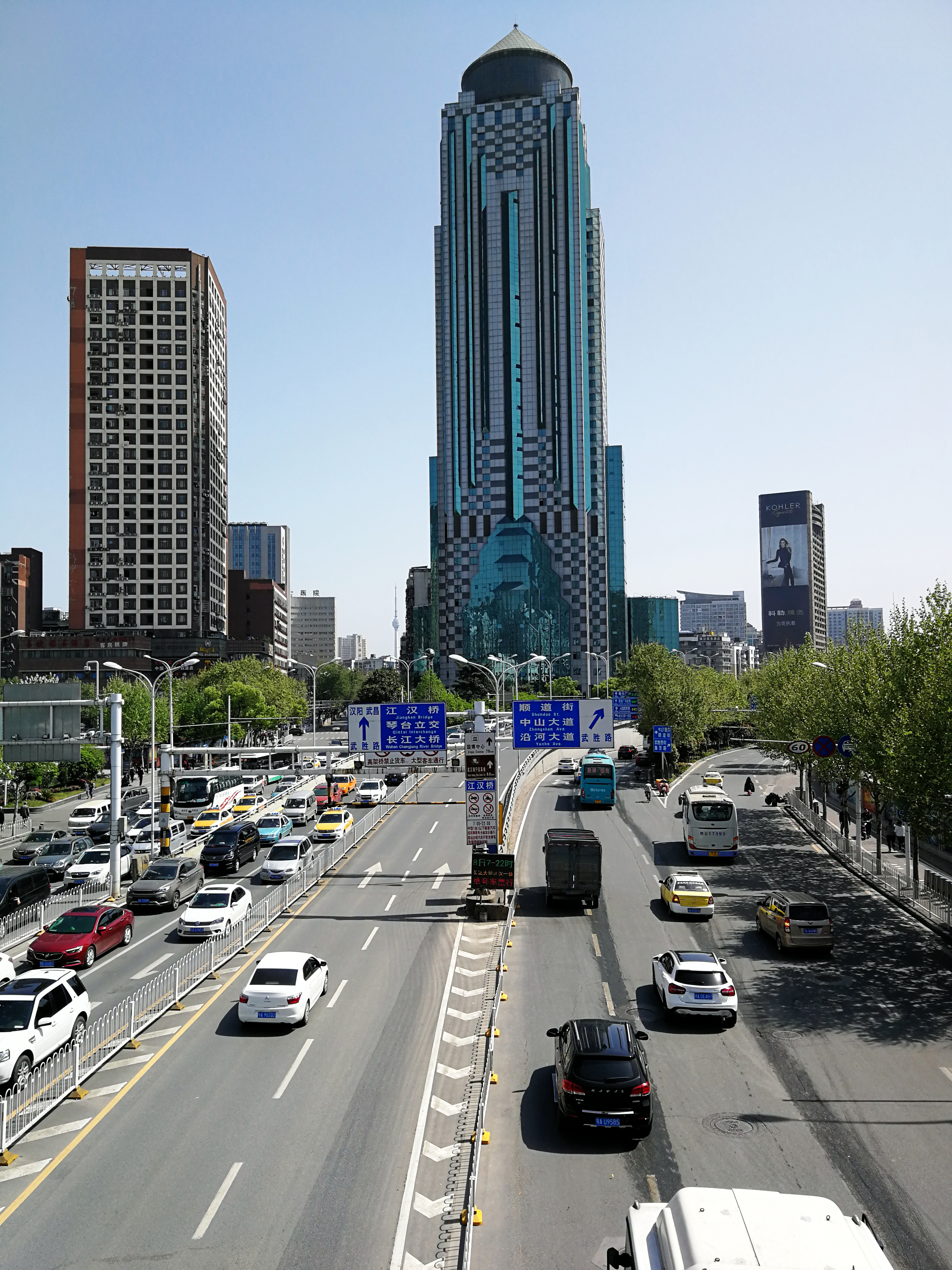 Taihe Plaza (Wuhan)